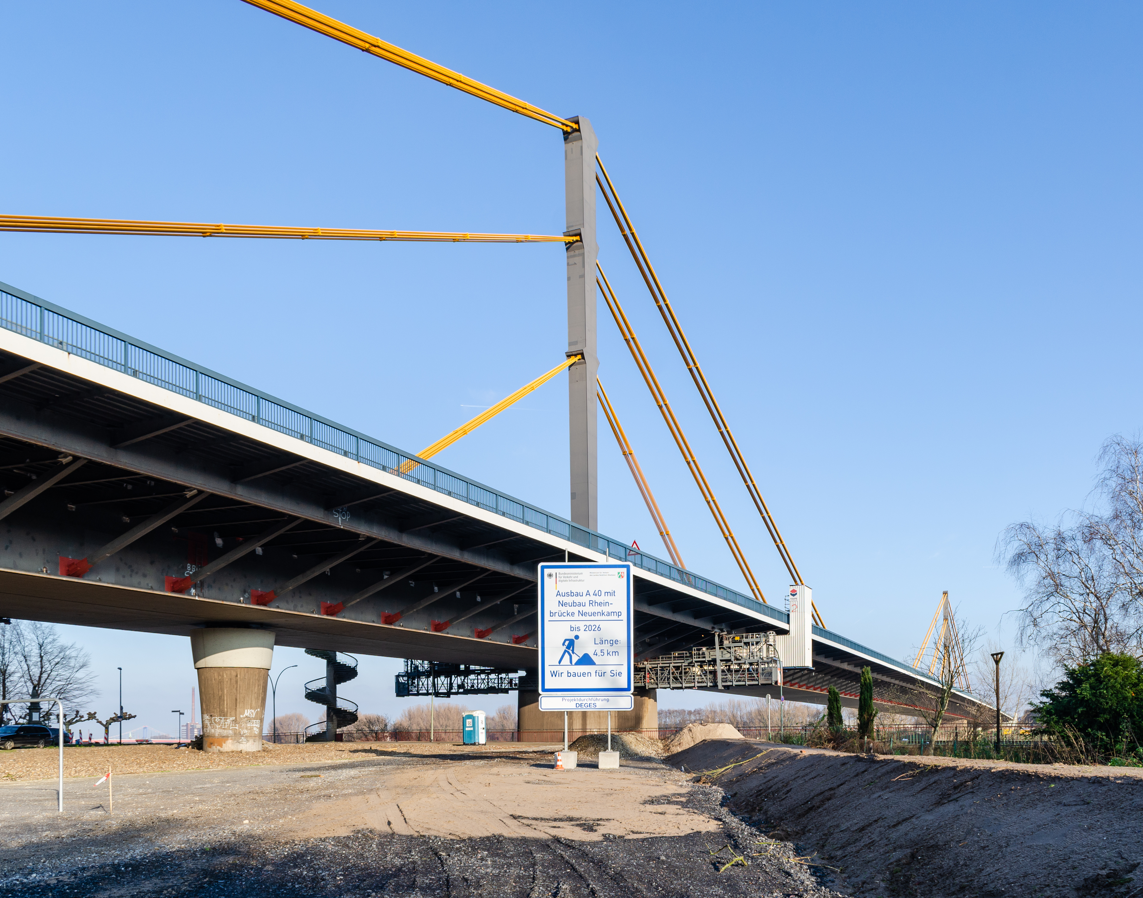 Duisburg (North Rhine-Westphalia, Germany) – borough Homberg/Ruhrort/Baerl, district Alt-Homberg – Neuenkamp Rhine Bridge – west side – construction site of the new bridge